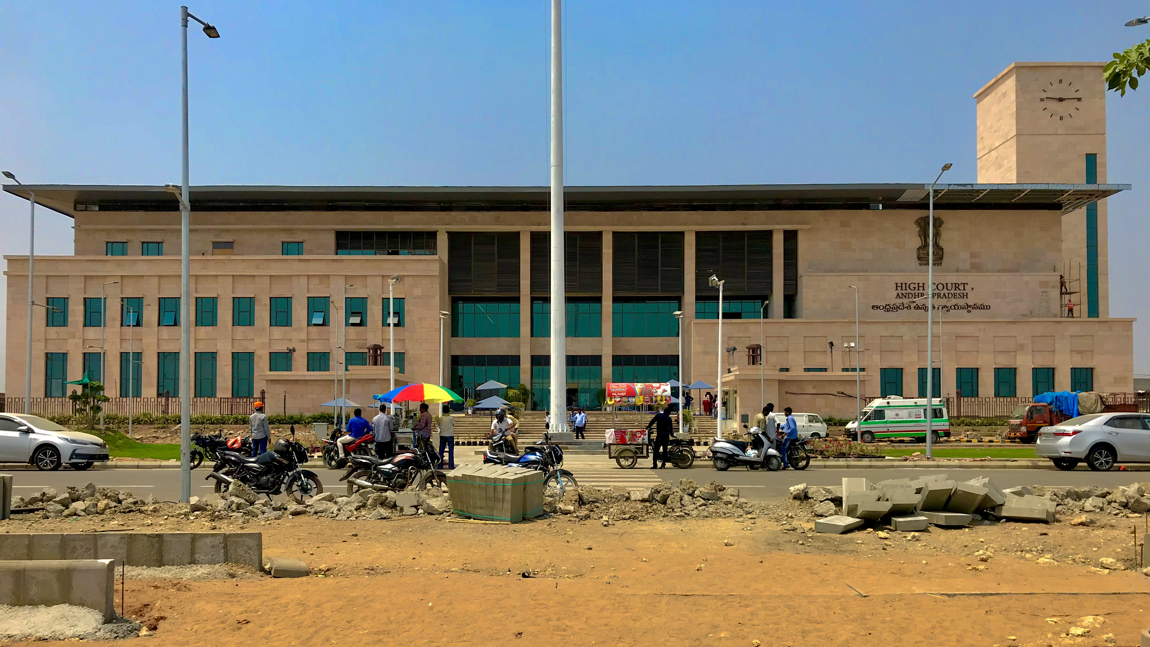 High Court of Andhra Pradesh, Amaravati (May 2019)